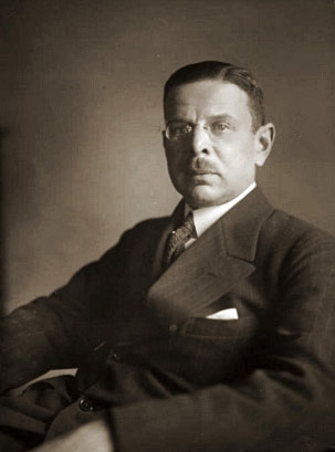 Karol Bader (1887-1957) – Polish diplomat